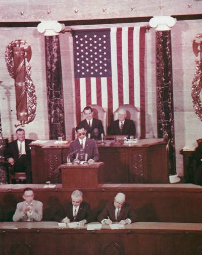 His Majesty King Bhumibol Adulyadej addresses a joint session of the U.S. Congress on June 29, 1960.